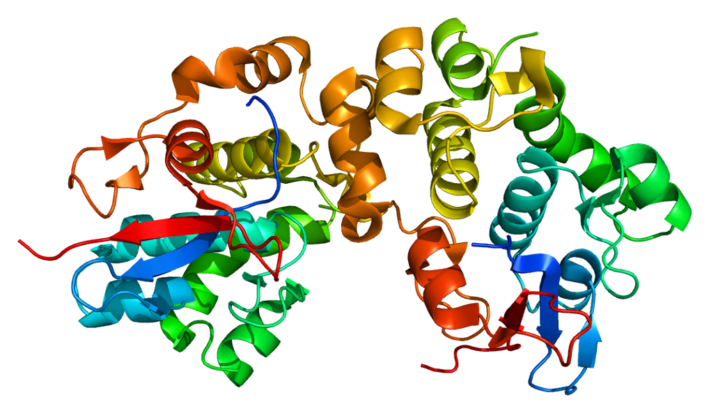 Structure of the DSP protein. Based on PyMOL rendering of PDB 1lm5.